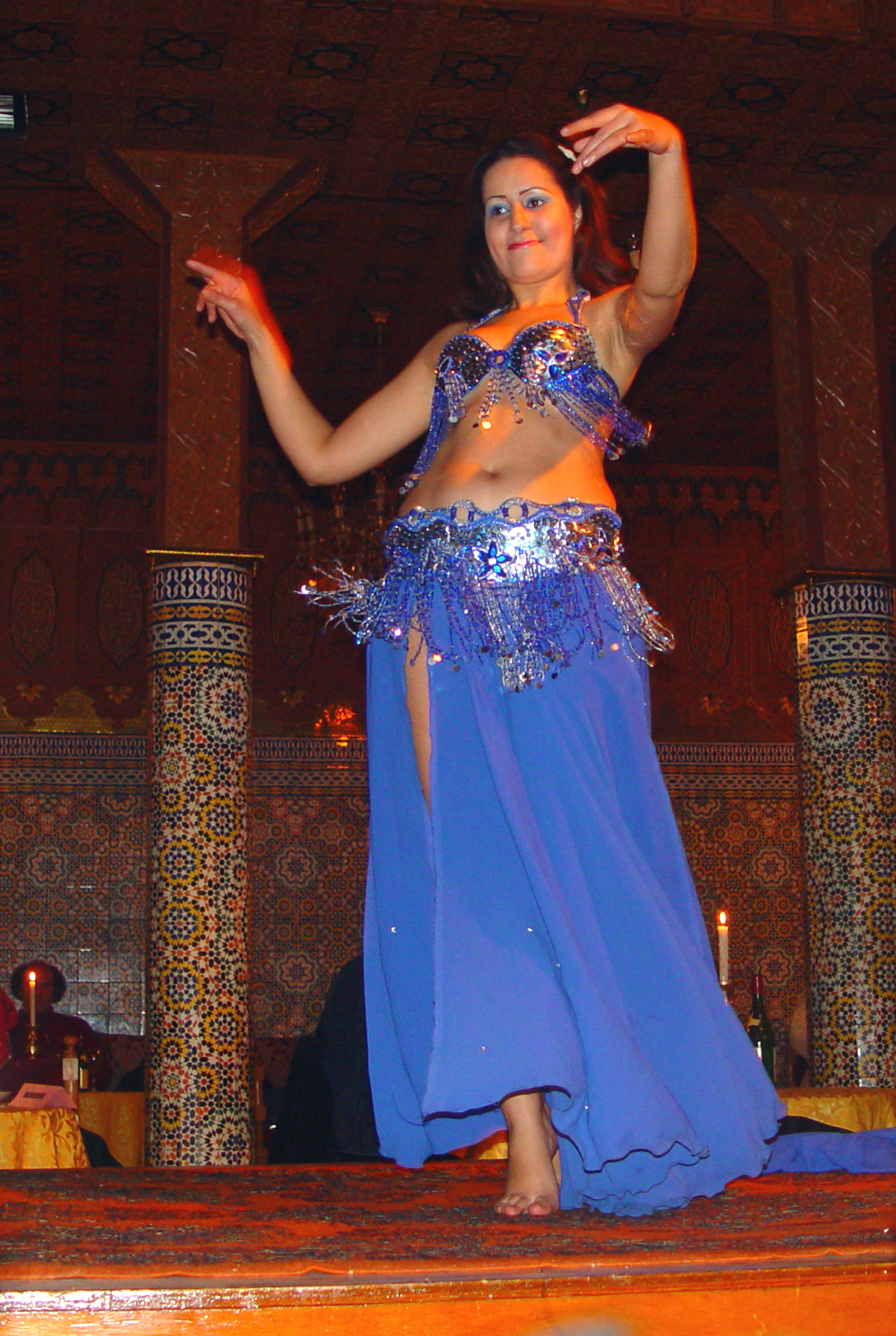 A Belly Dancer in Marrakech (Morocco)